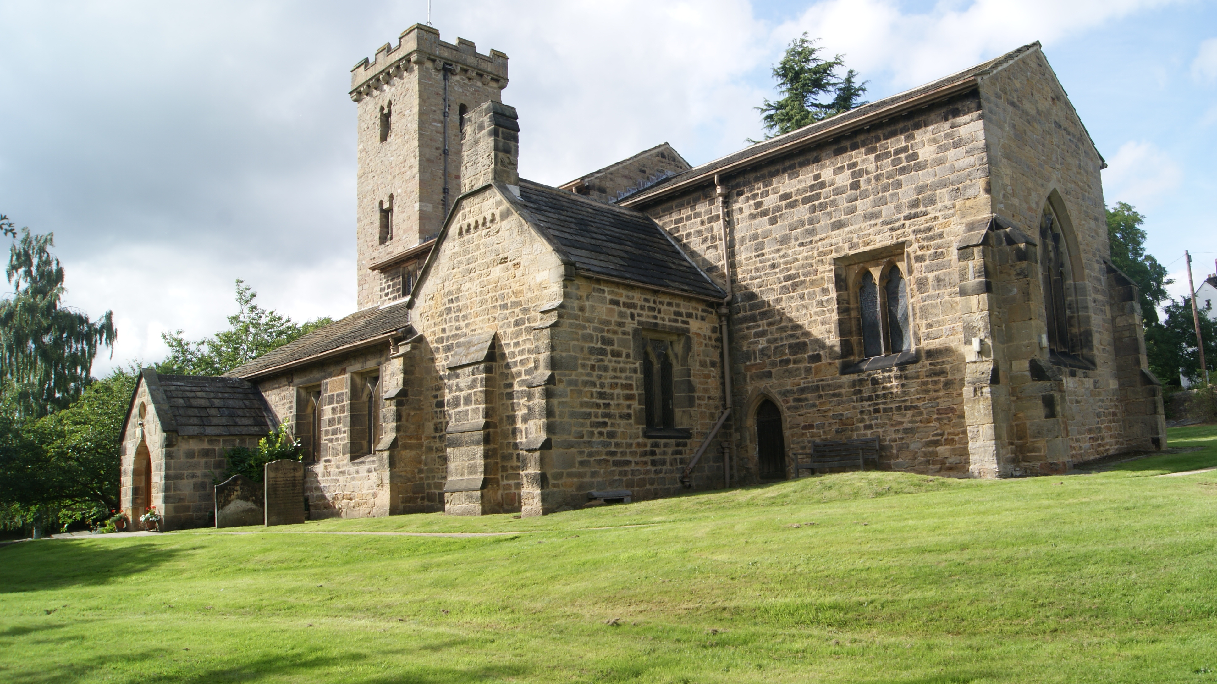 All Hallows Church, Bardsey, West Yorkshire. Taken on the afternoon of Thursday the 29th of August 2013.